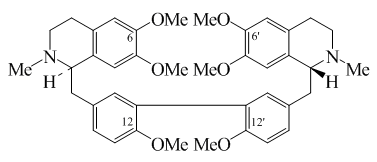 Pisopowetine structure